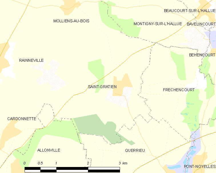 Map of French municipality Saint-Gratien